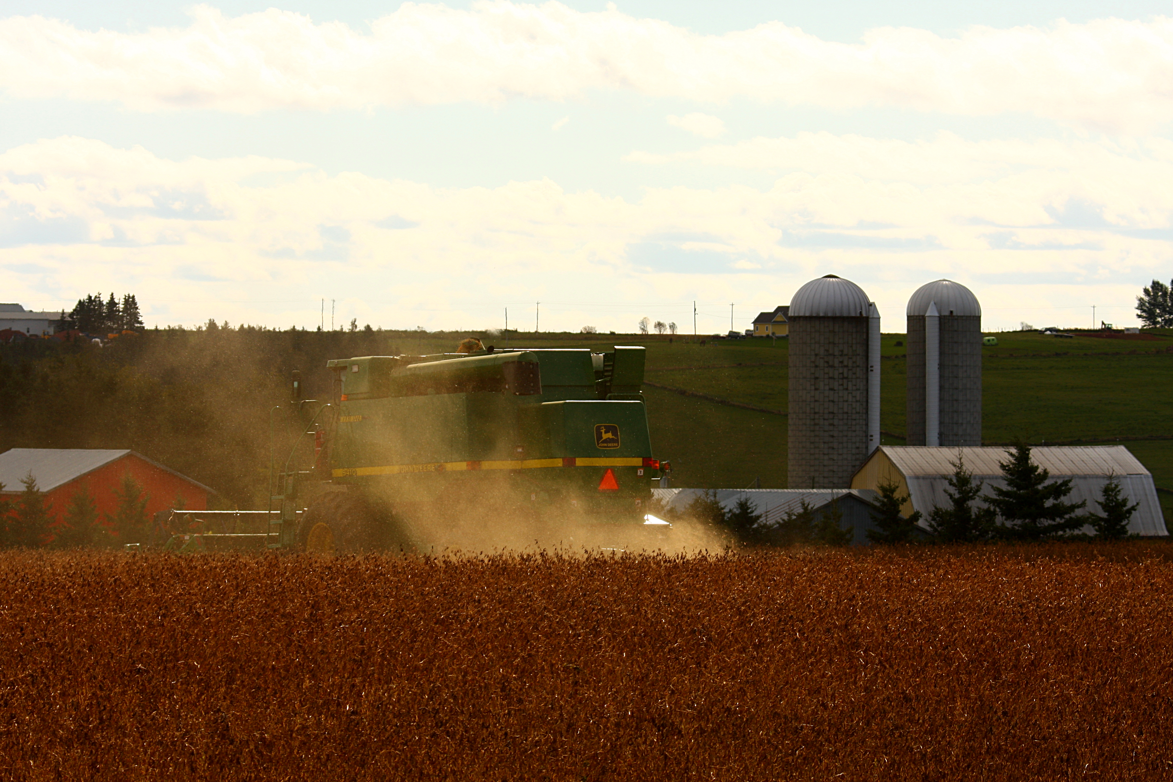 A John Deere 9410 combine harvester at work in a soybean field, Prince Edward Island, Canda. – We would have had to wait for a long time for the light to be right, and the harvester to be in the right position, and we wanted to get to Orwell, so we bailed, and this is the best I got.